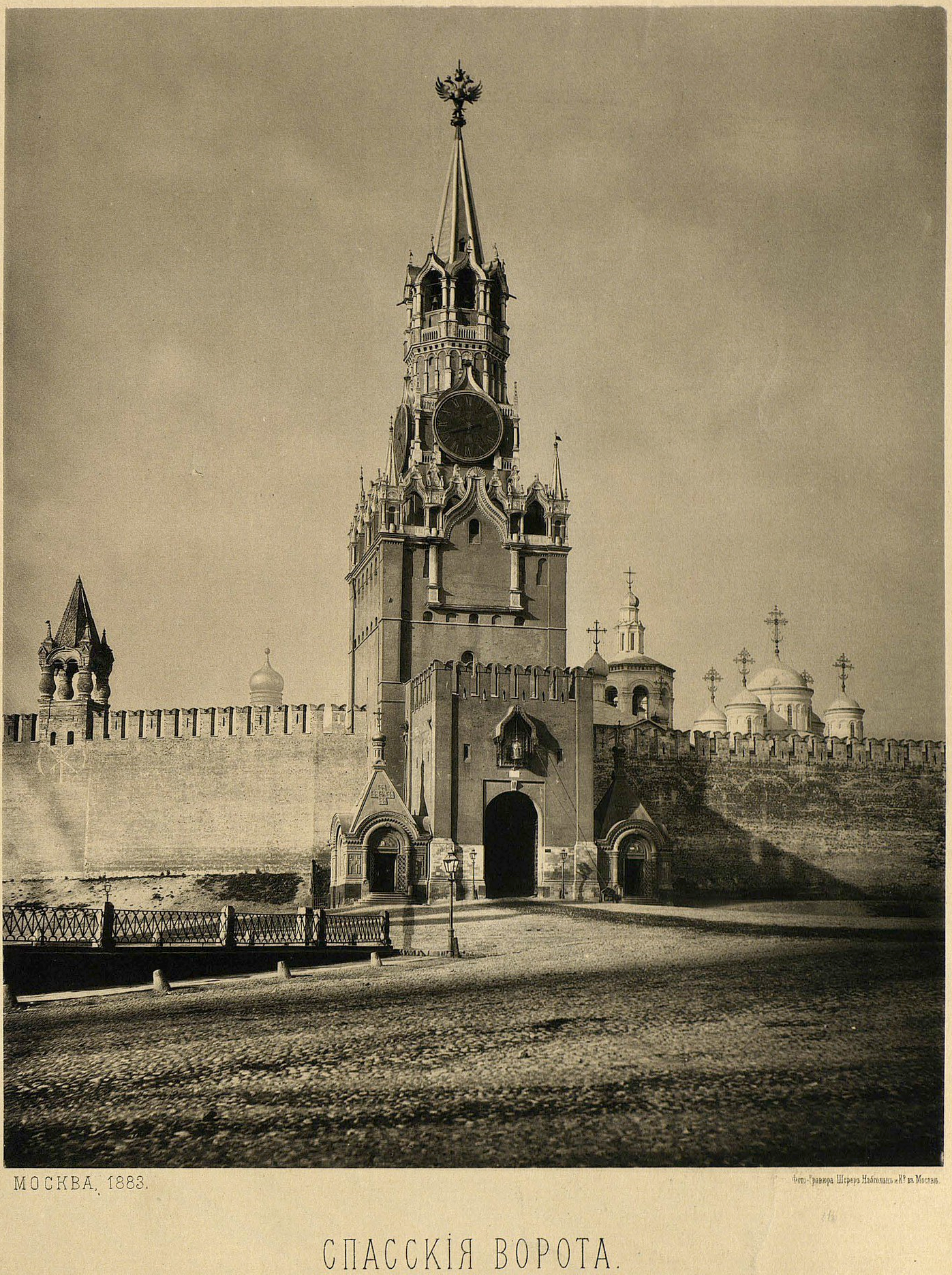 Plate 25: Spasskie gates (of Moscow Kremlin).